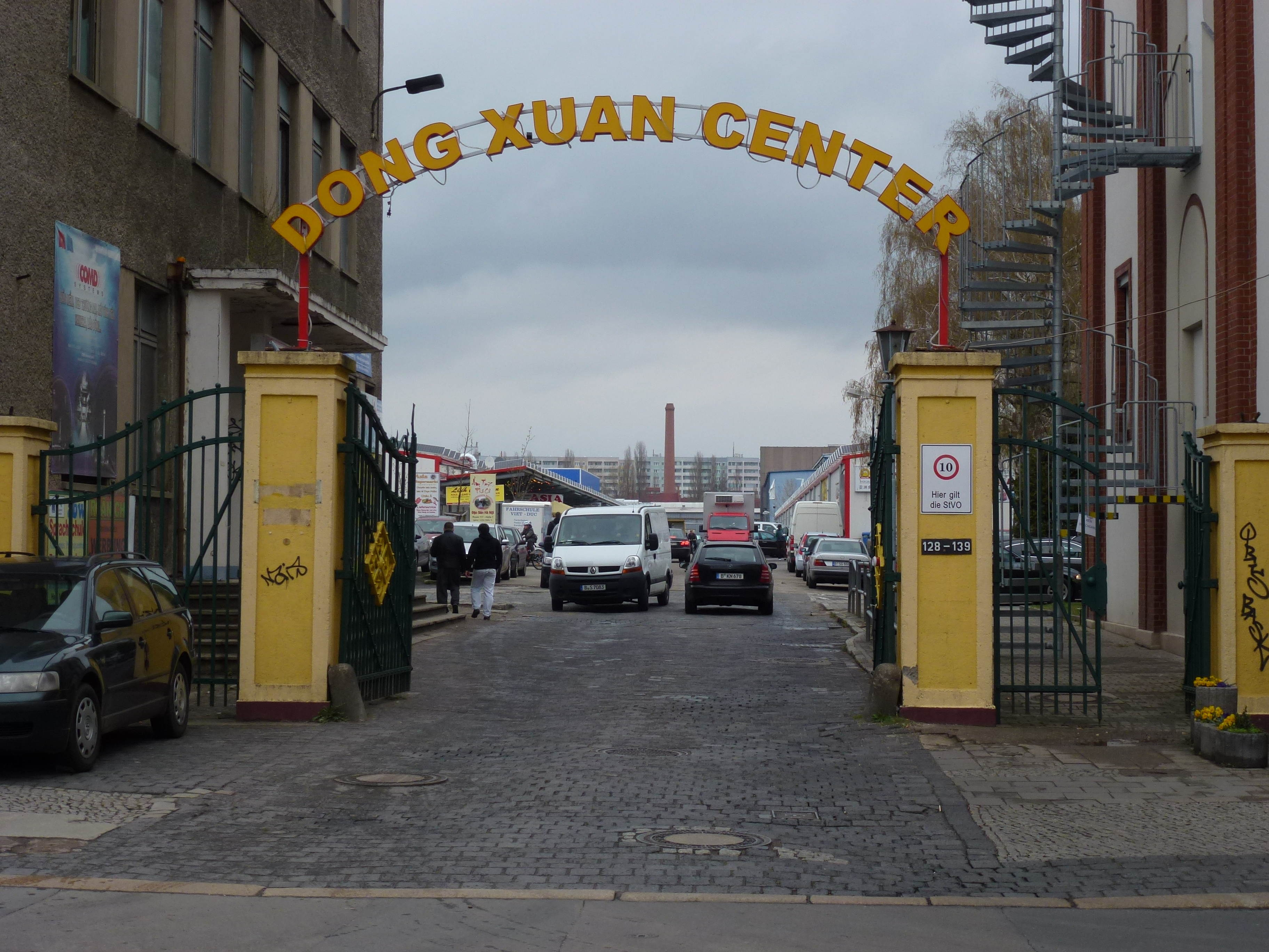 Berlin-Lichtenberg Dong Xuan Center